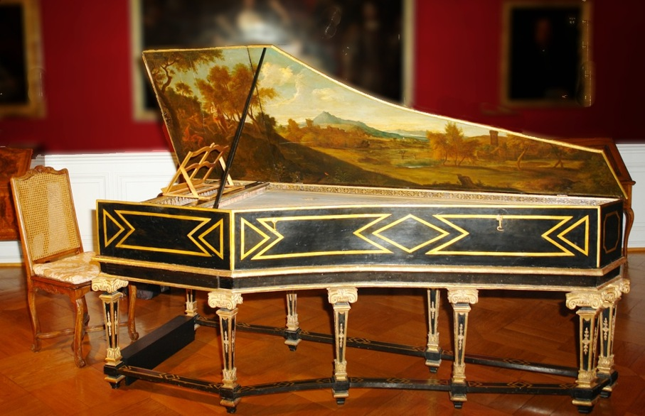 Harpsicord, Cembalo, Clavecin, Clavecimbel Ioannes Rückers (1624) in Colmar